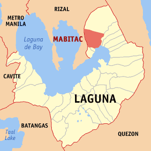 Locator map of Mabitac in Laguna, Philippines.